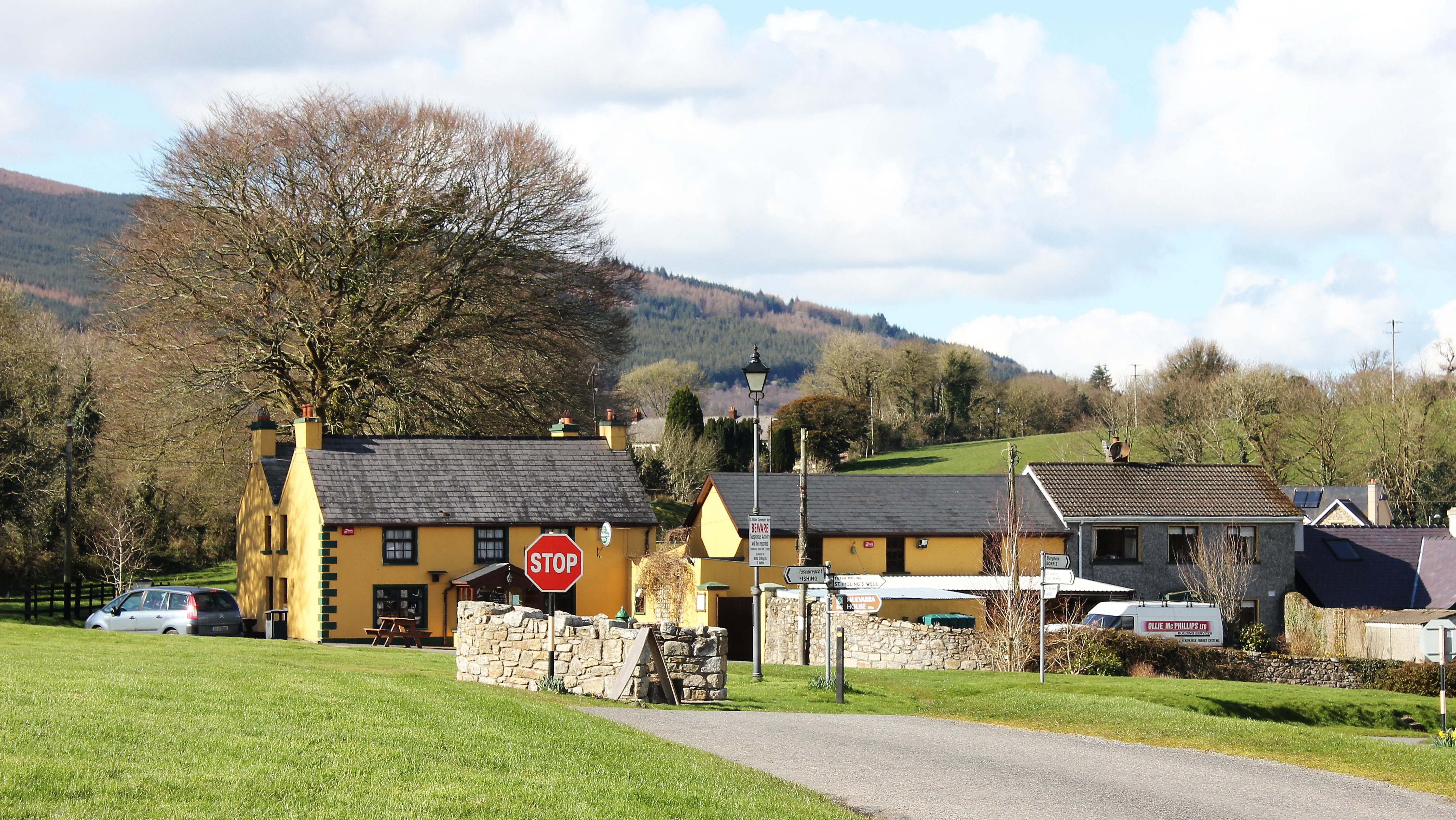 The village